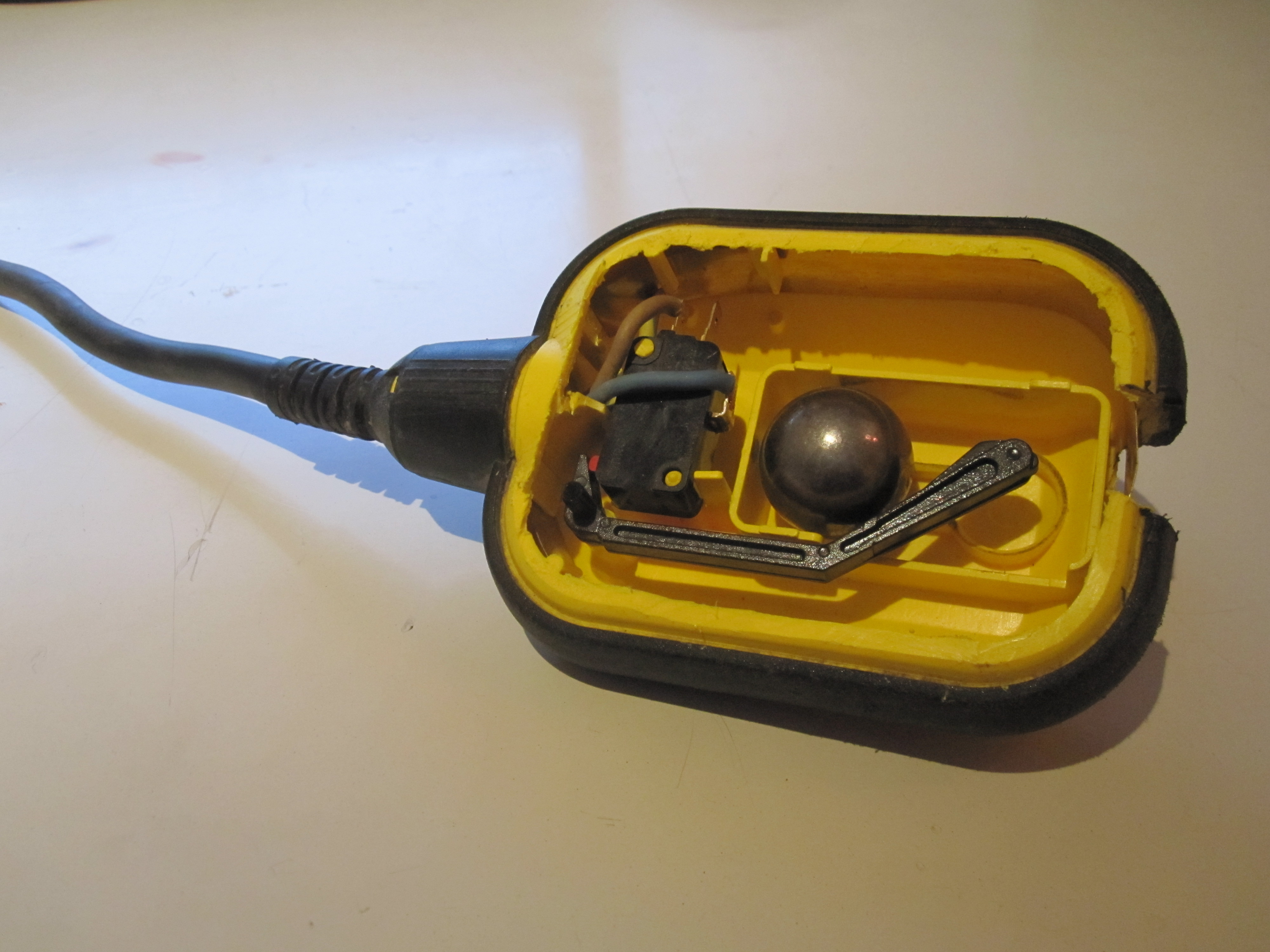 A float switch of a simple dirty water pump. I had milled it open and took a photo. You can find identical switches at sewage, sump or submersible pumps. In this position the pump is switched on. The ball slips, according to the position of the switch by its own weight in one or the other position. As a result of this the black lever moves the little red pin of the micro switch (the black rectangular box). I believe i opened the back side of the switch. But it doesn't really matter because all functional parts are symmetric.